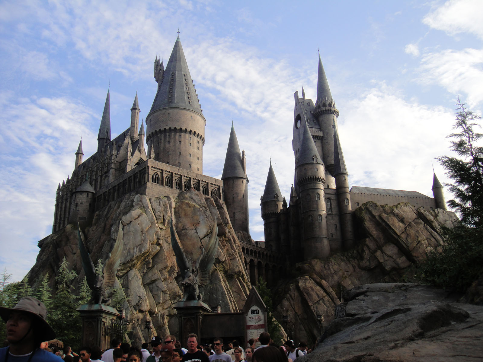 Wizarding World of Harry Potter - Hogwarts castle